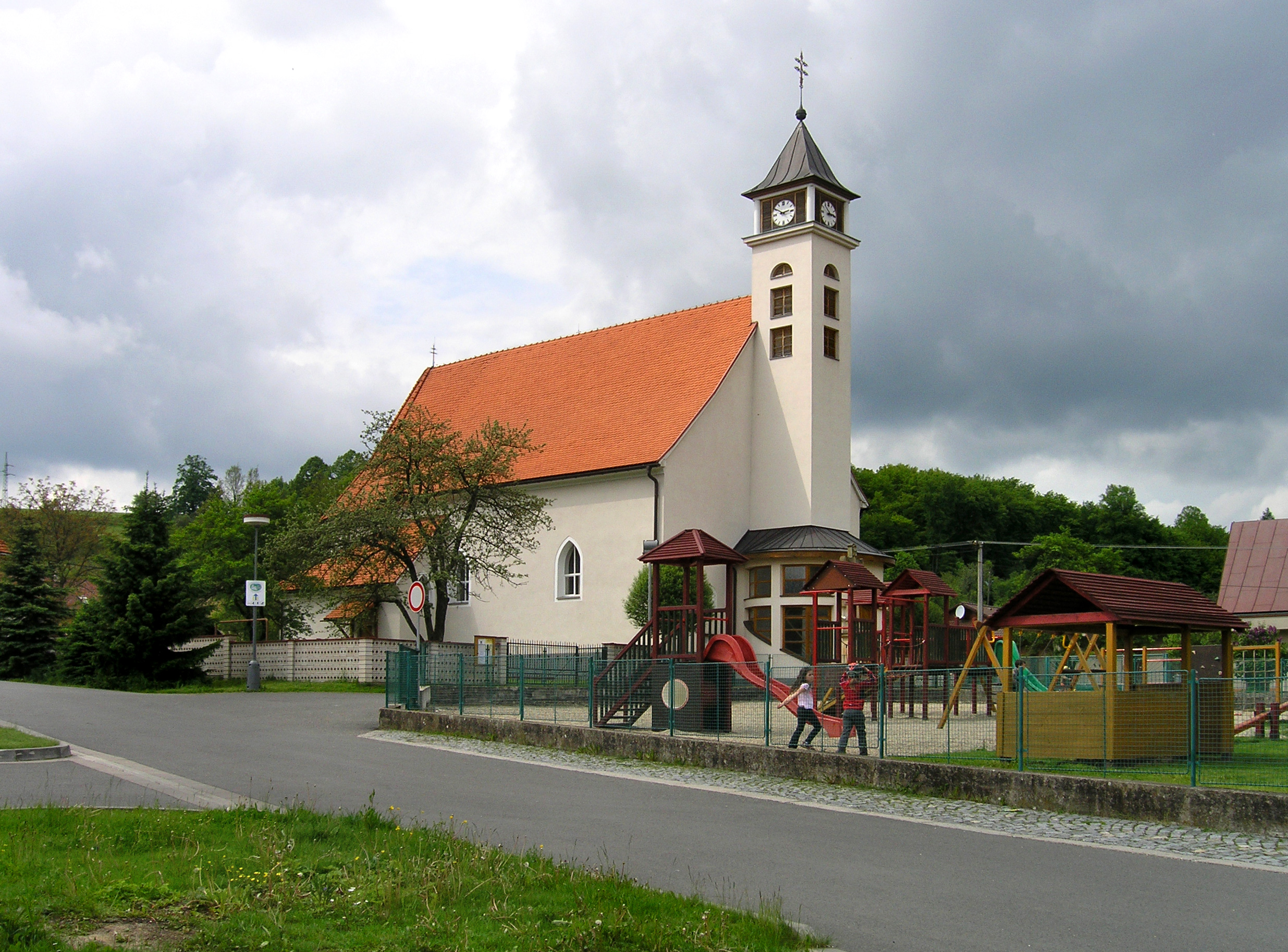 Church in Valašská Polanka, Czech Republic